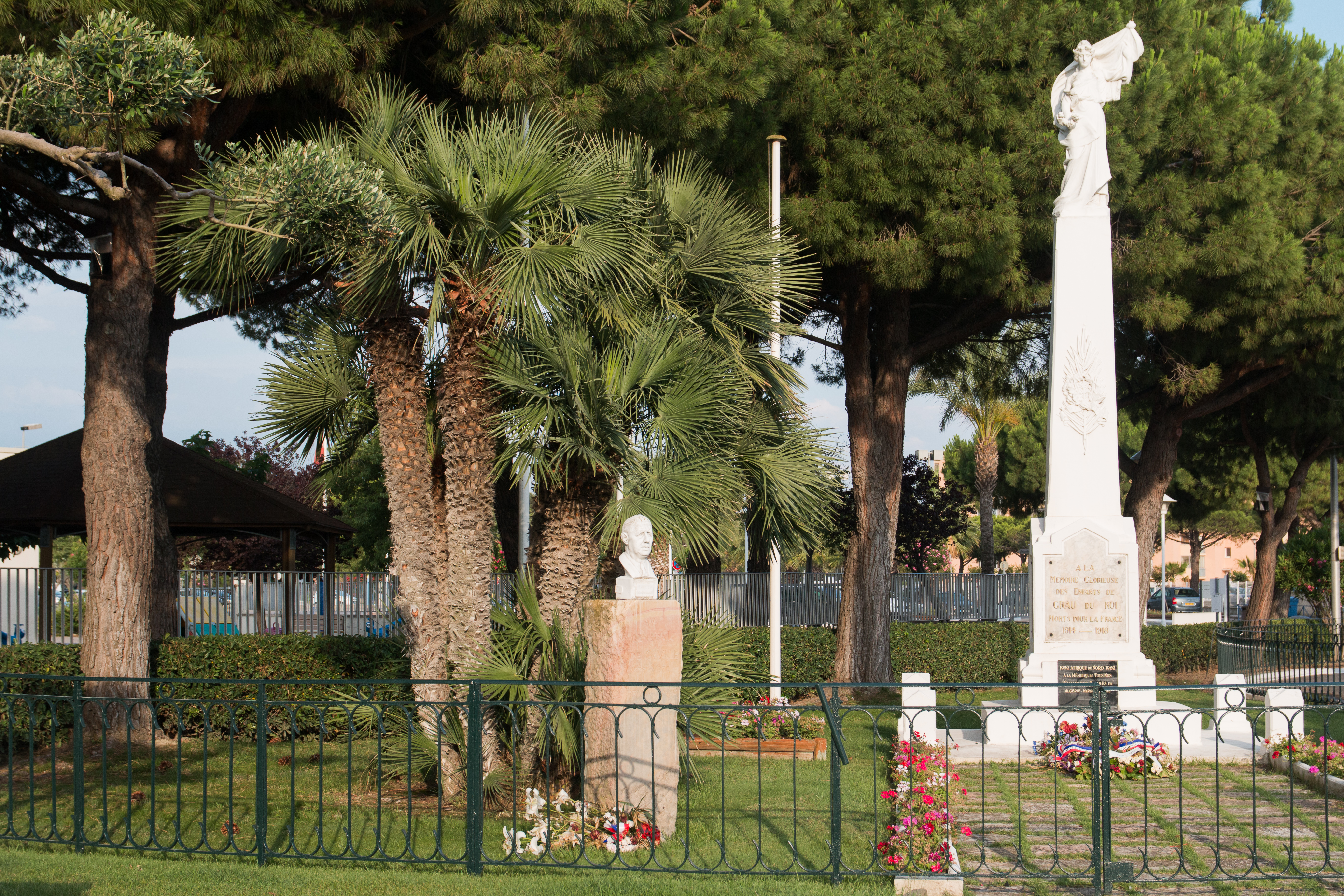 In the enclosure of the Wars monument, is also a sculpture in tribute to General De Gaulle